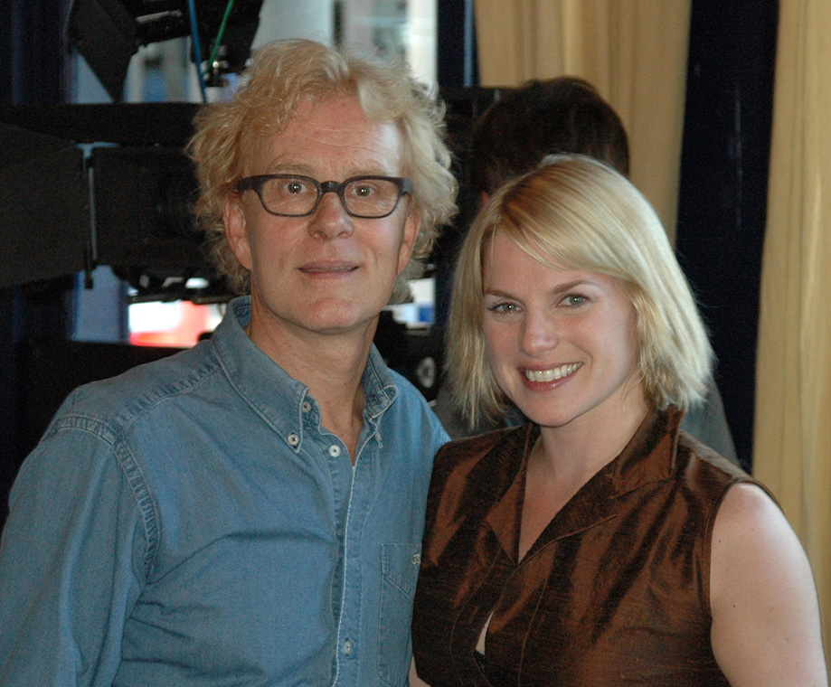 Curt Truninger and Eva Birthistle on the set of The Rendezvous in Toronto.